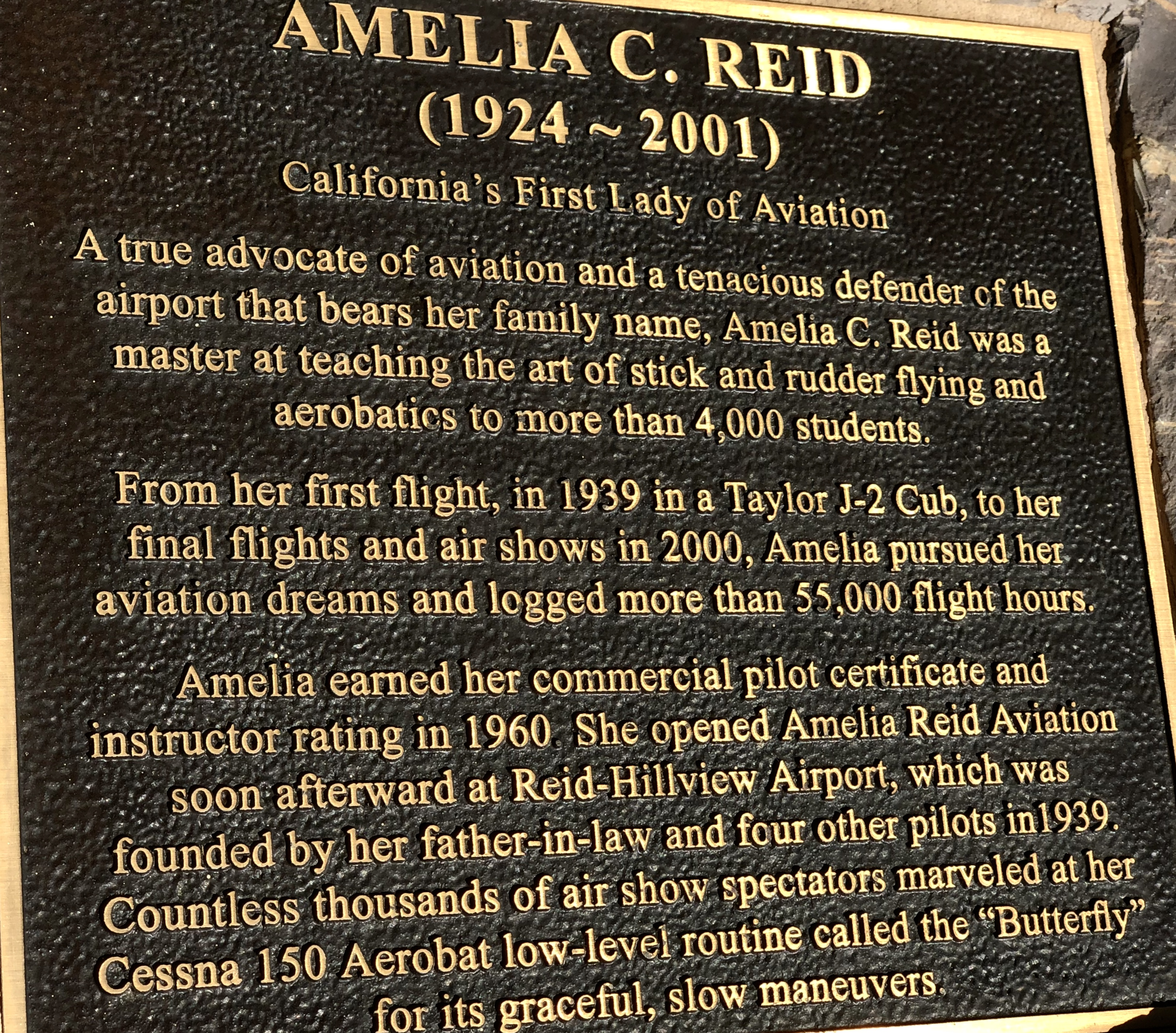 A plaque honoring aviator Amelia C. Reid, located near the terminal at Reid Hillview Airport in San Jose, California.